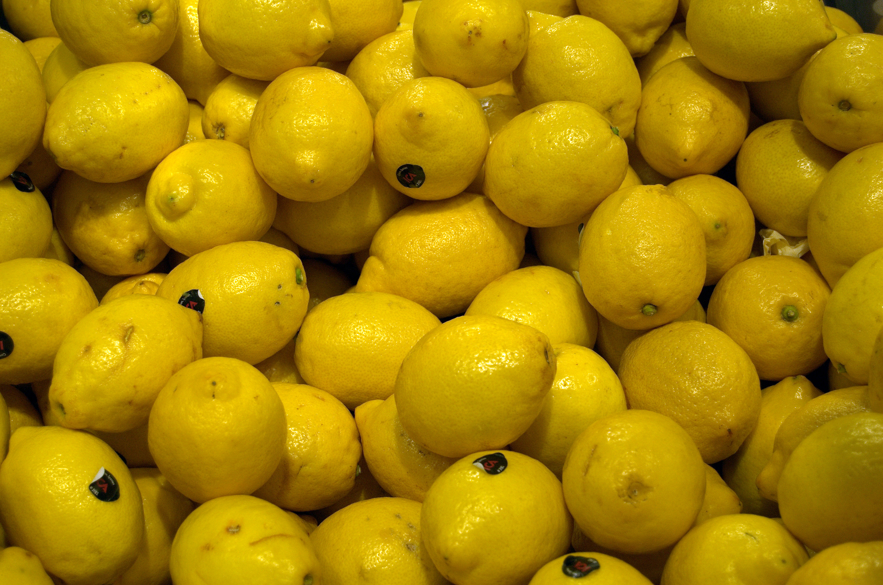 en: A bunch of lemons next to each other in a Swedish supermarket. Camera: Nikon D50 Location: ICA Maxi at Amhult/Torslanda/Hisingen outside of Gothenburg, Sweden.